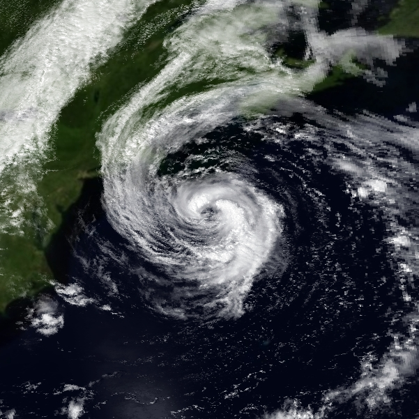 Image of Hurricane Bertha of the 1990 Atlantic hurricane season on 31 July 1990